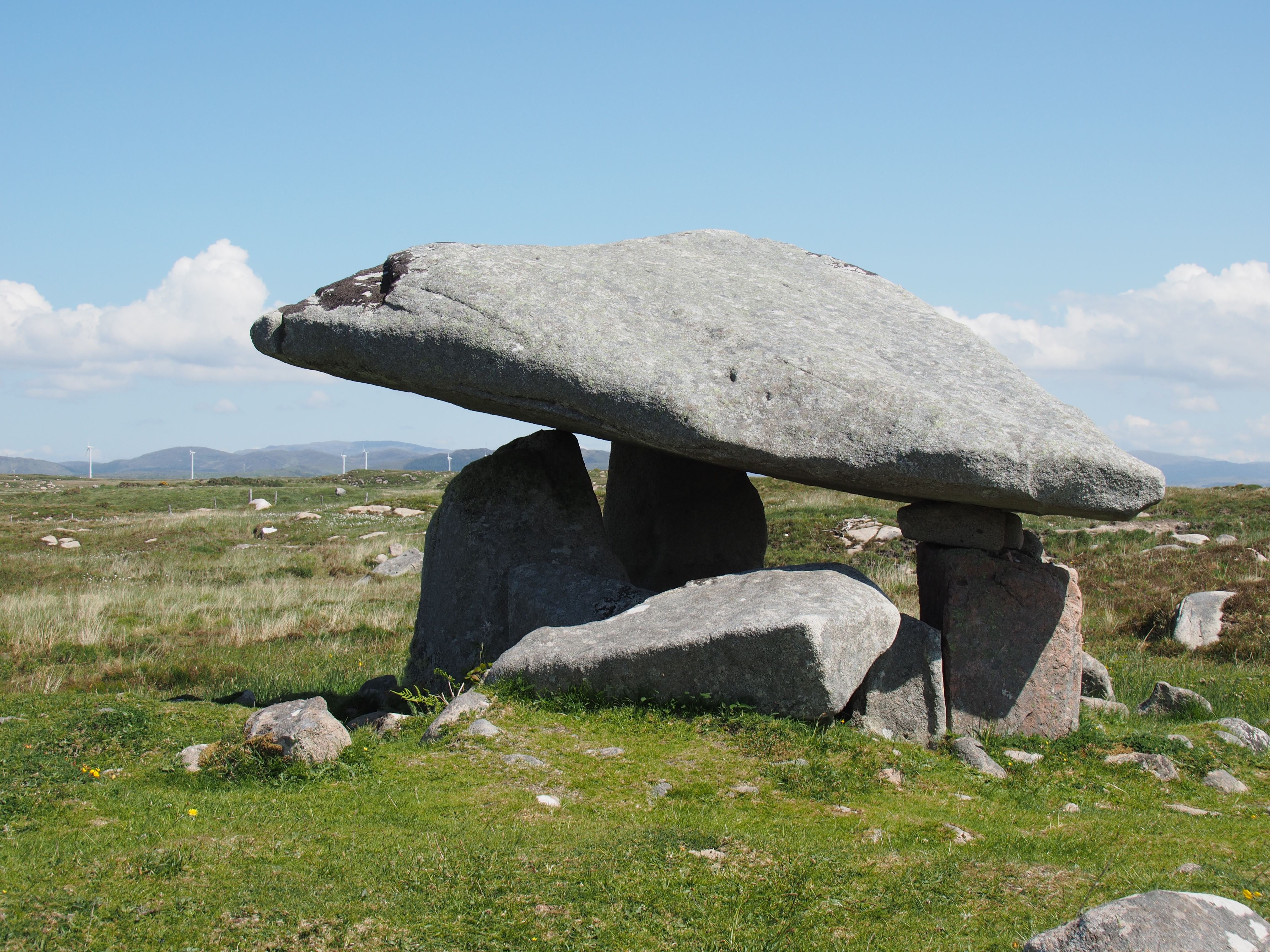 Kilclooney Dolmen near Ardara, County Donegal, Republic of Ireland